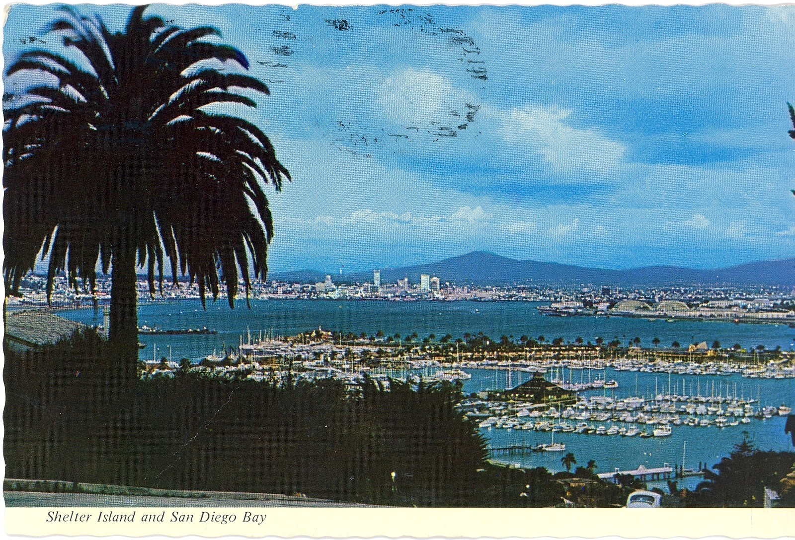 Color photochrome postcard depicting Shelter Island and the San Diego Bay as seen from Point Loma. This postcard is postmarked on June 16, 1972. The back of the postcard reads: San Diego, California. Seen from Point Loma, the tropical foliage and bright blue waters present a year-round invitation to sailors, fishermen and sight-seers. B2148 Published for Road-Runner Card Co., P. O. Box 1095, San Diego, 92112 MIKE ROBERTSBERKELEY 94710